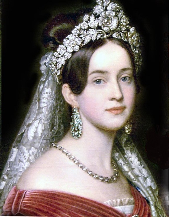 Amalia of Oldenburg, Queen consort of Greece